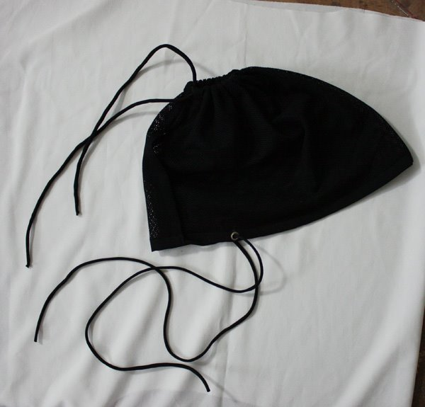 Chinese headwear